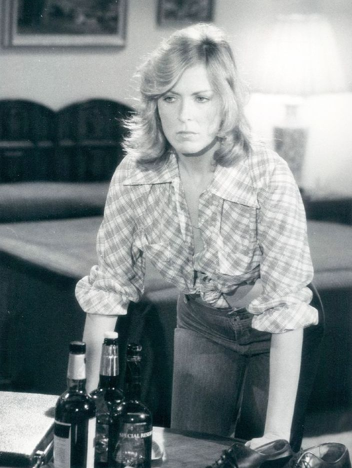 Actress Joanna Cassidy in NBC Movie Mystery McCoy (1976)